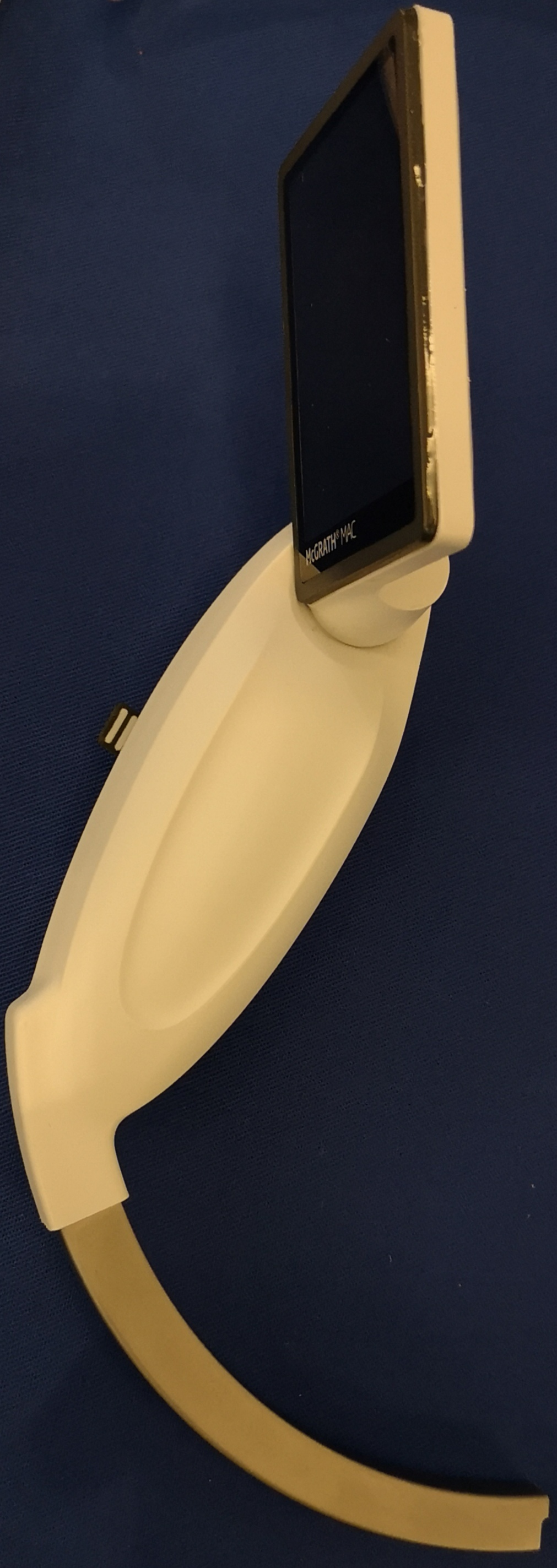 Video laryngoscope for (pre-)hospital use